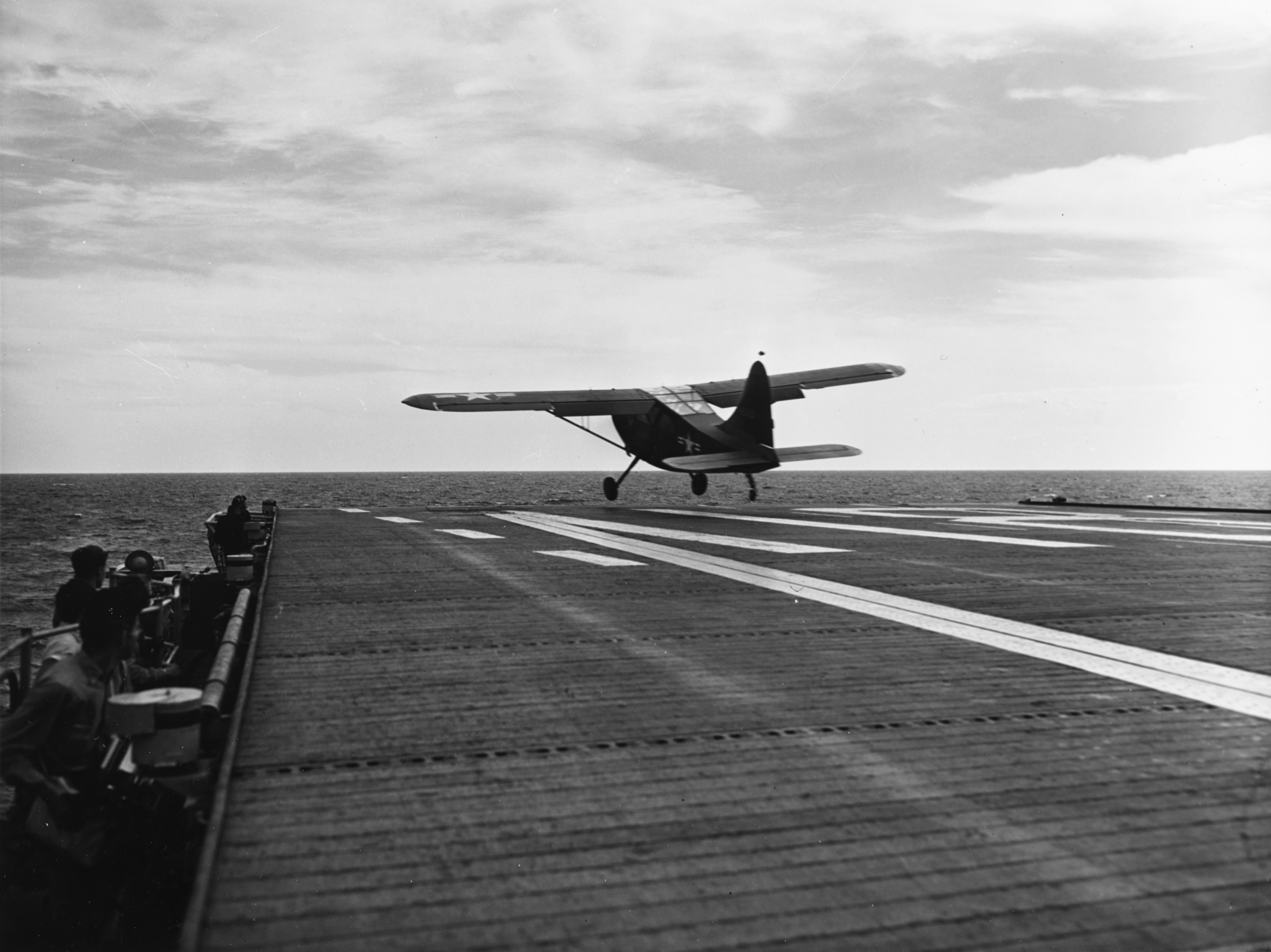 The U.S. Navy escort carrier USS Sicily (CVE-118) launches a U.S. Marine Corps Stinson OY-2 Sentinel spotter plane during operations in the Yellow Sea, off the west coast of Korea, 22 September 1950. Sicily was then supporting the campaign to recapture Seoul.